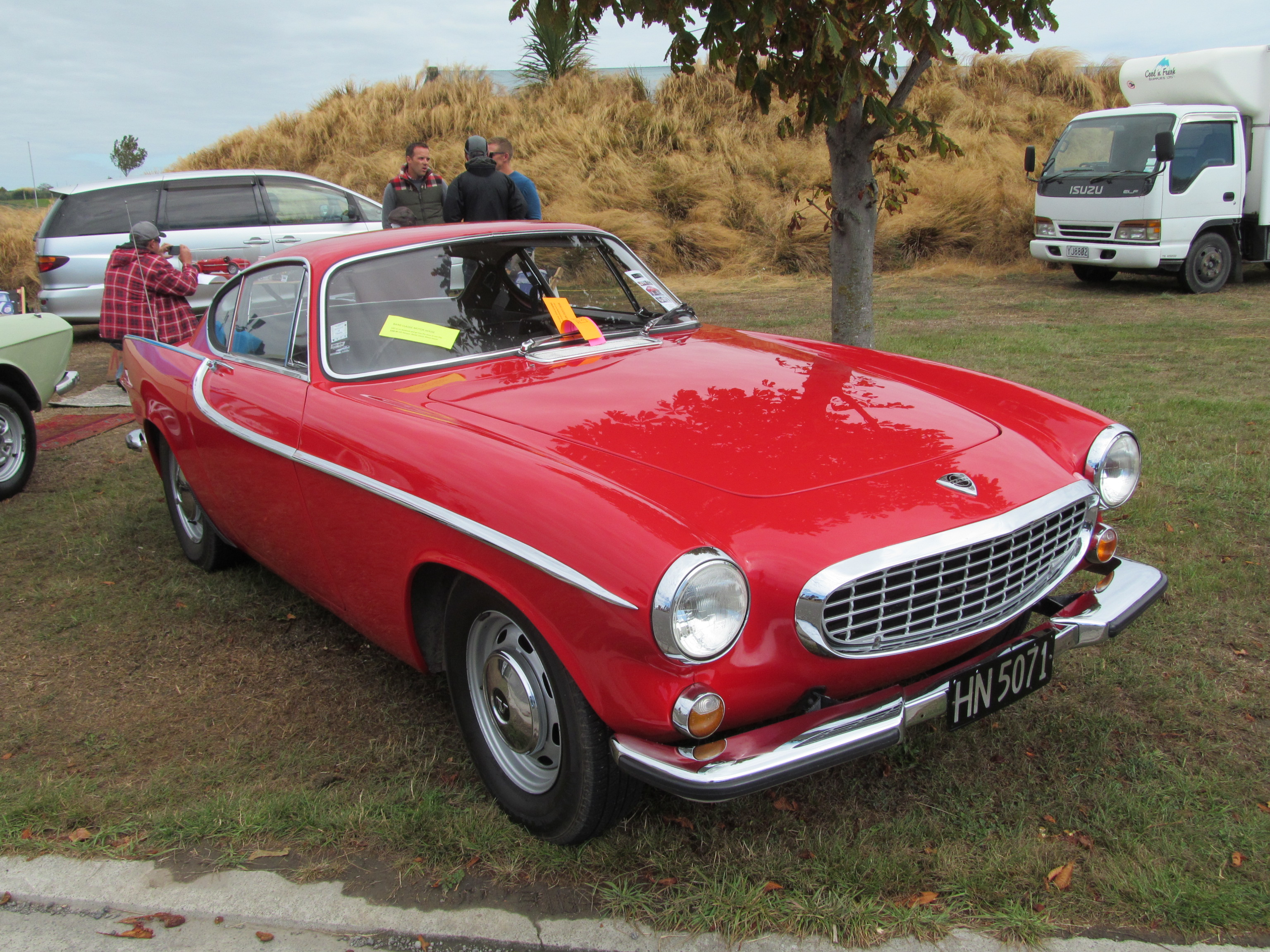 1964 Volvo P1800, first registered in NZ in 1975.